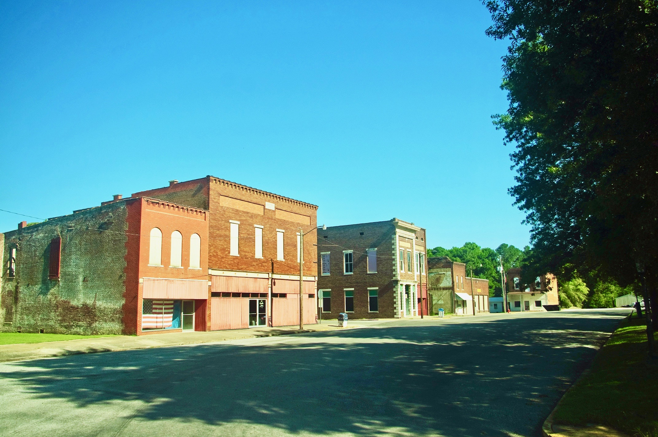 Businesses on the town square in West Salem, Illinois, United States.